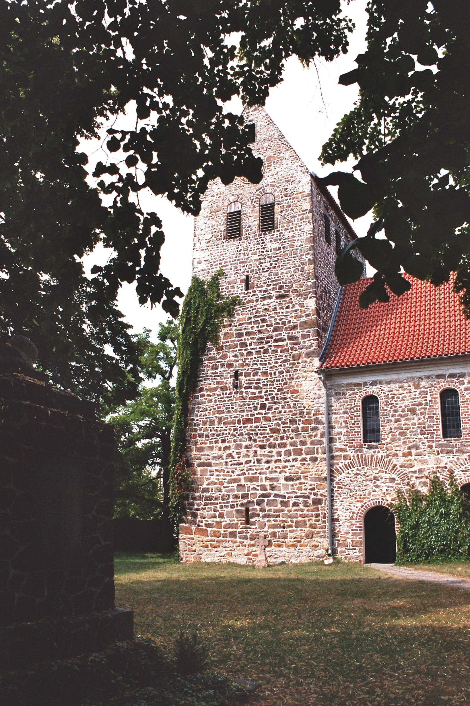 Plötzky (Schönebeck), the villahe church Mary Magdalene This is a photograph of an architectural monument. 98329